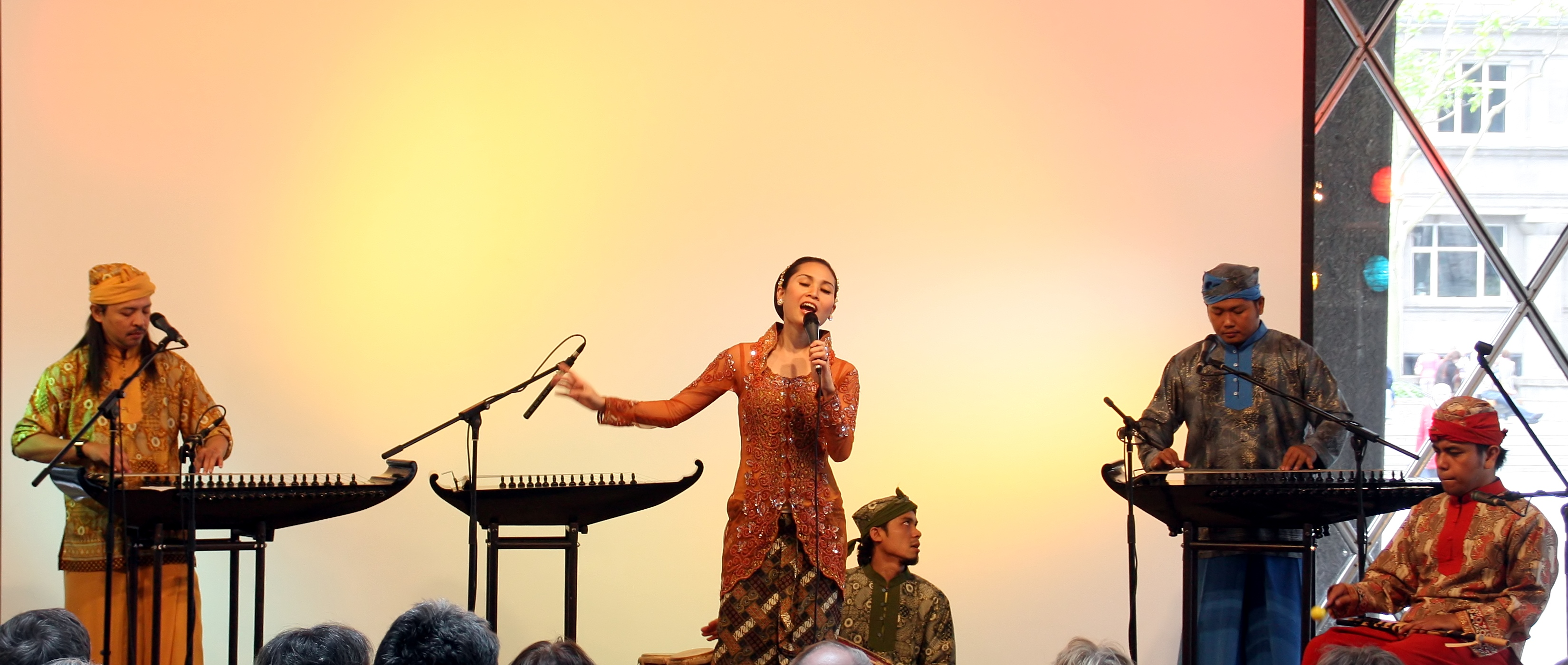 The SambaSunda quintett from Java, Indonesia, performs in Cologne